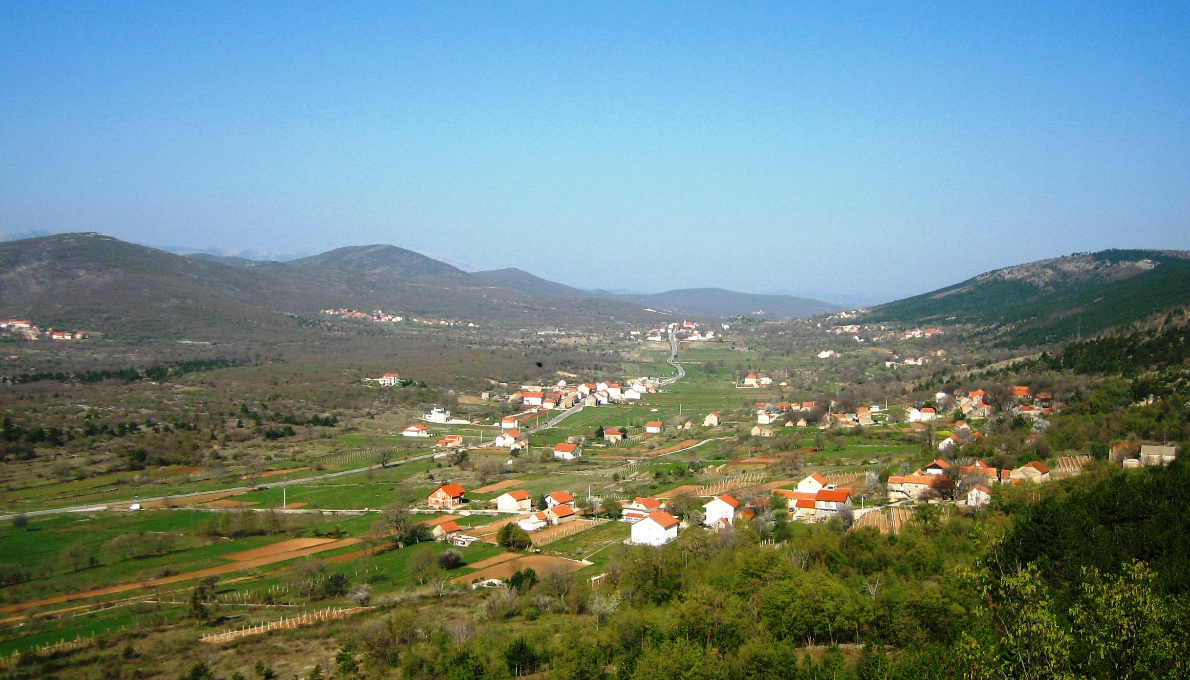 Cista Velika